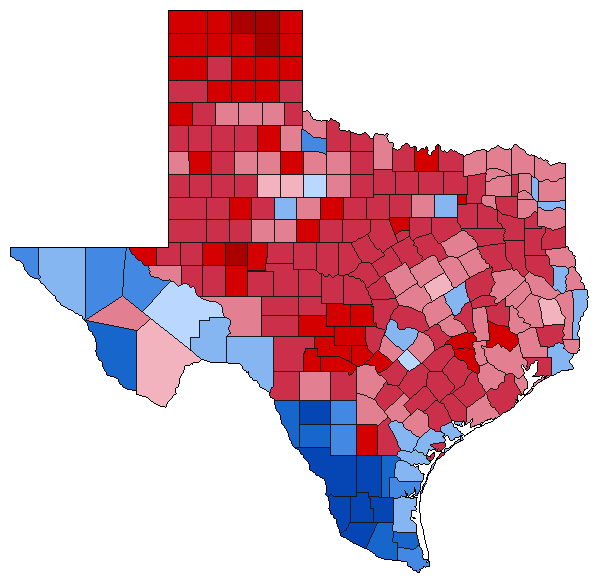 Color shaded map of the 2002 Senate election in Texas